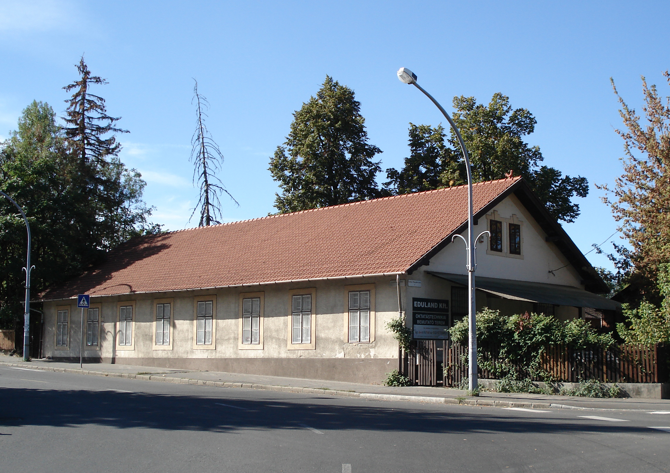 Old office house (then scool and dweling house), Corner of Lónyay and Gózon streets, Miskolc, Diósgyőr-Vasgyár, Hungary